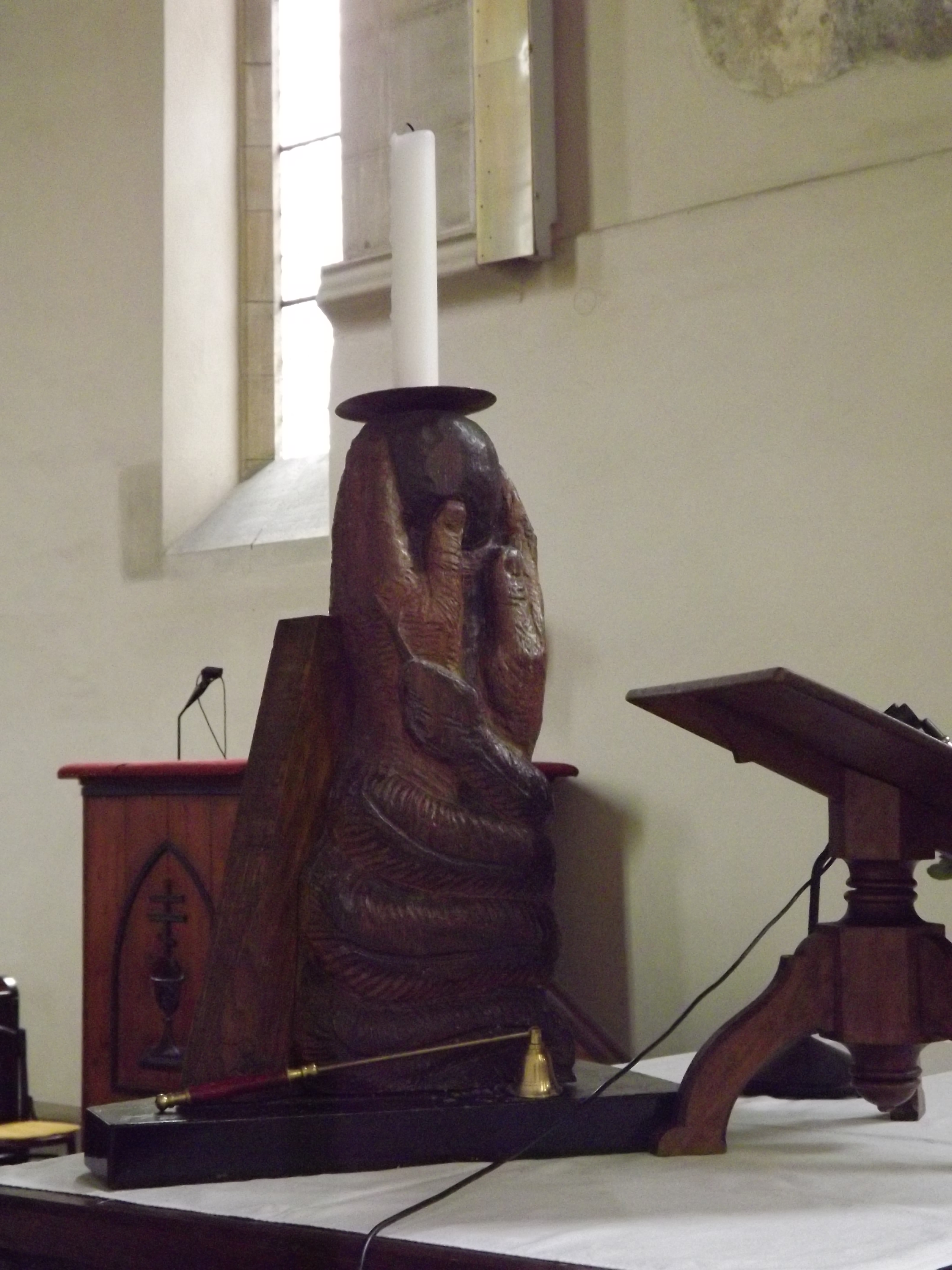 The candle holder.